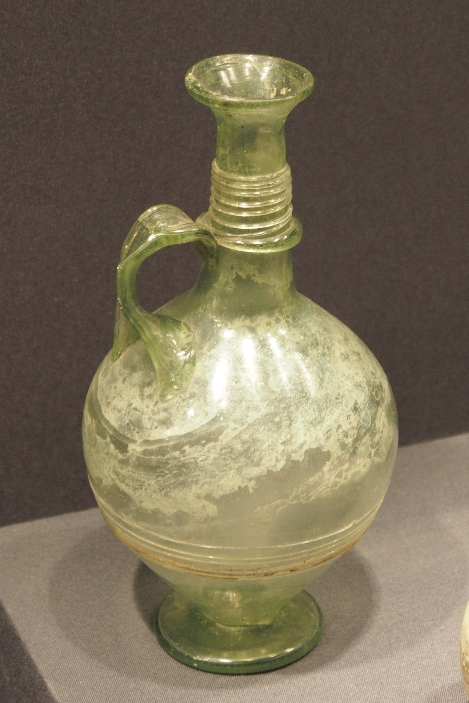 Roman glass jug. Roman Hispania; Late Empire. Museo de Valladolid.